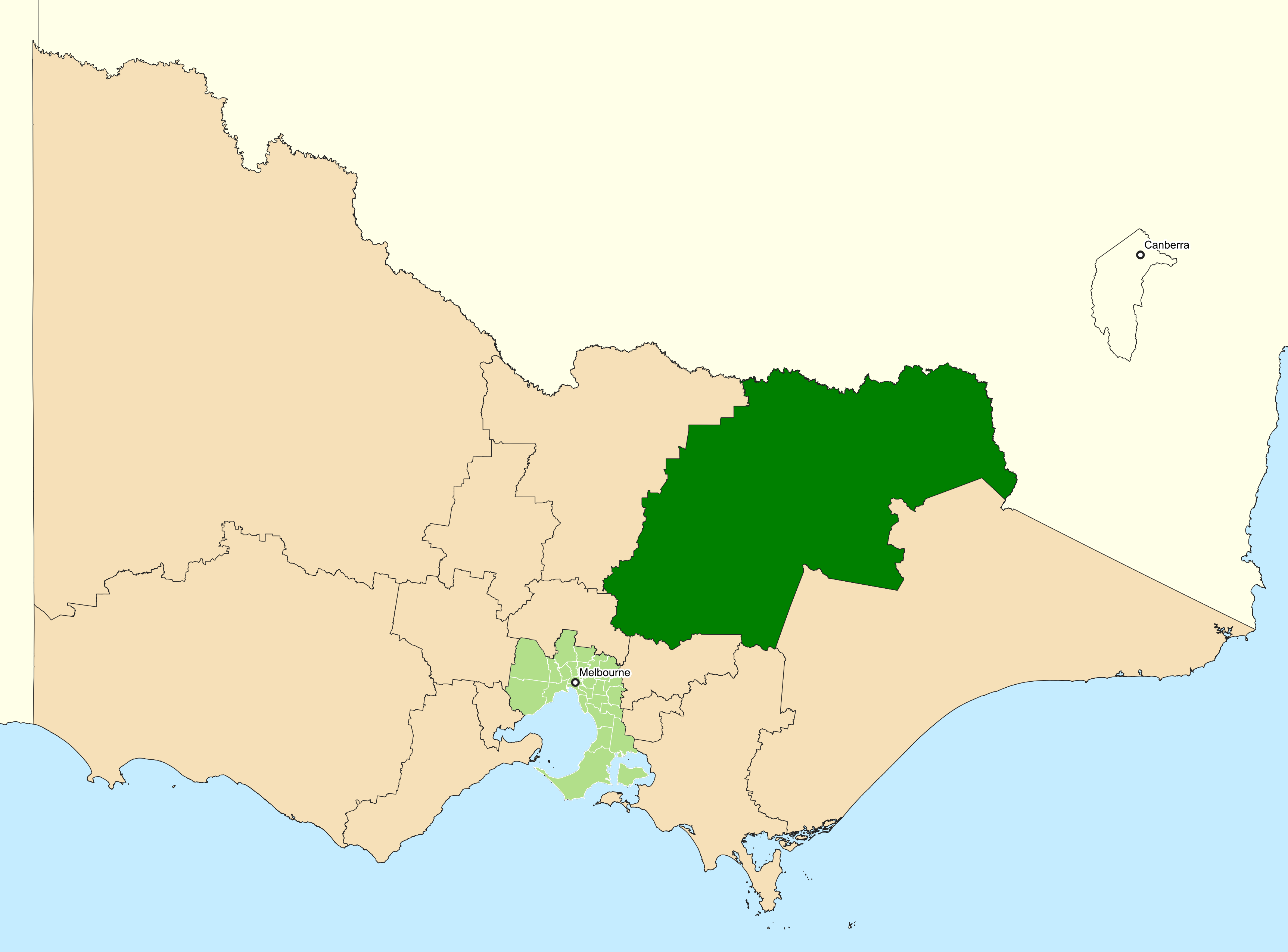 Location of the Australian federal electoral division of Indi (dark green) in Victoria as of the 2019 Australian federal election. Incorporates or developed using Administrative Boundaries ©PSMA Australia Limited licensed by the Commonwealth of Australia under Creative Commons Attribution 4.0 International licence (CC BY 4.0).